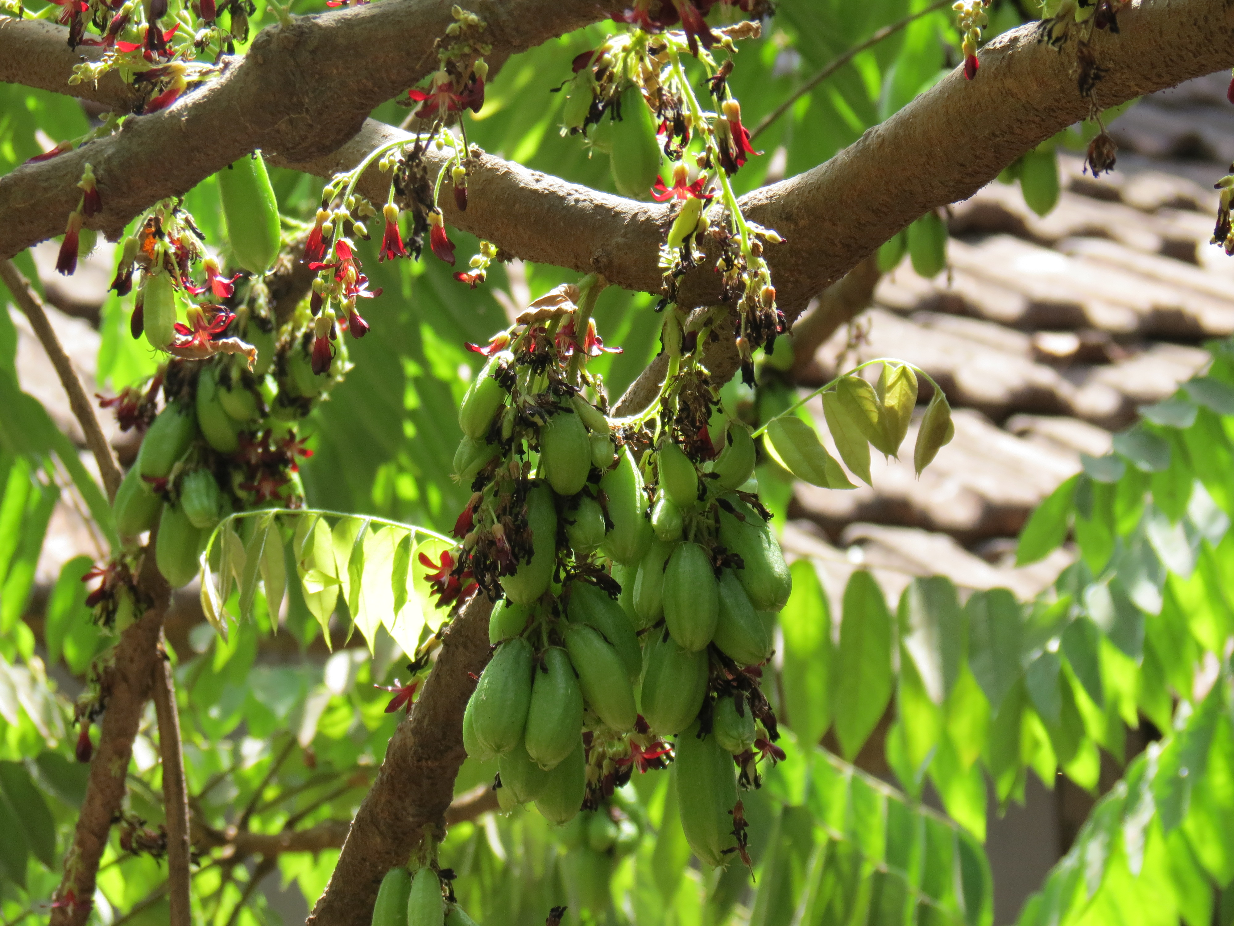 Photo of Averrhoa bilimbi and its flower